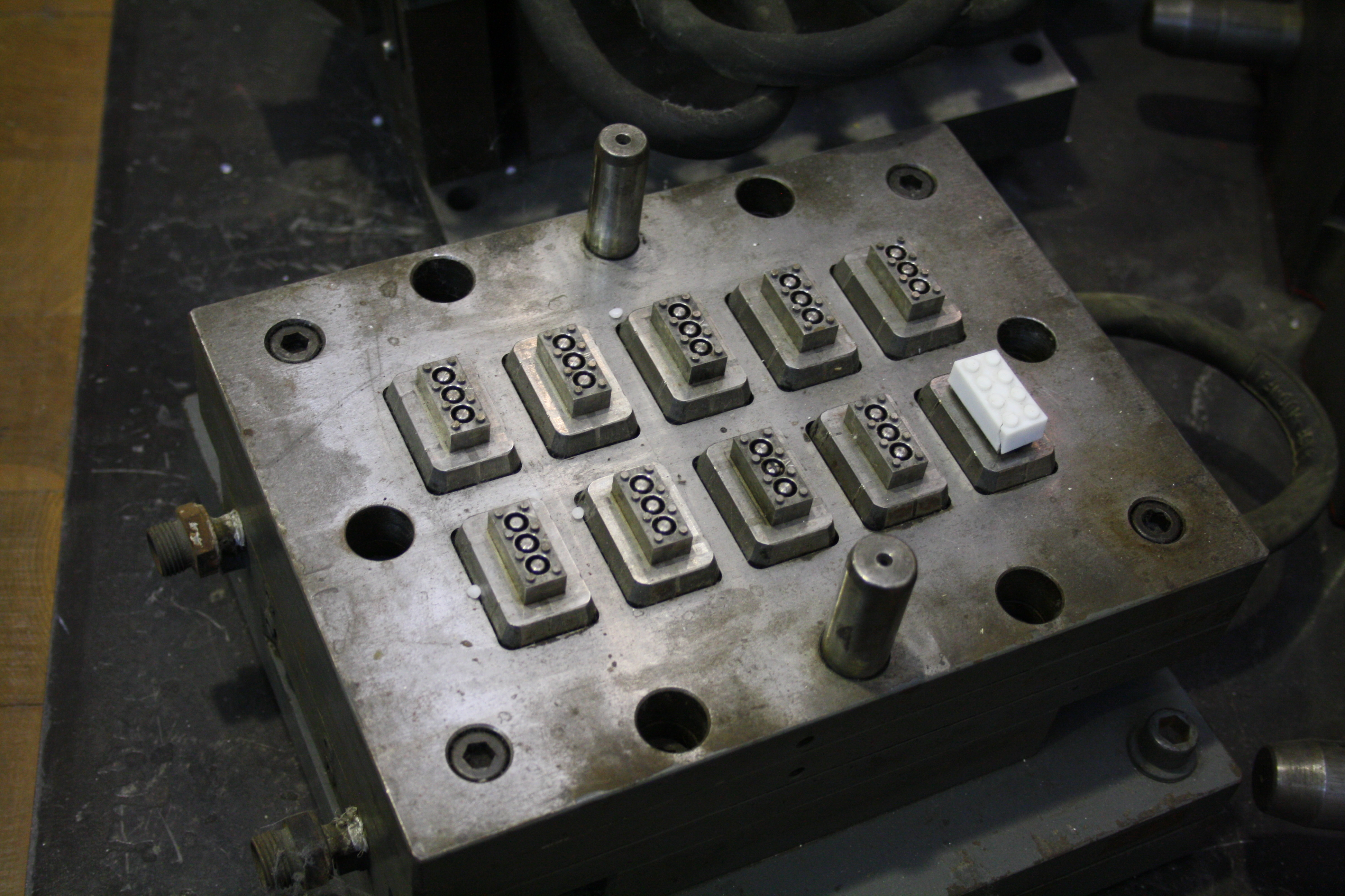 Lego injection molds. Photo taken at "Landesmuseum für Technik und Arbeit" at Mannheim, Germany (Mannheim State Museum for Engineering and Work)